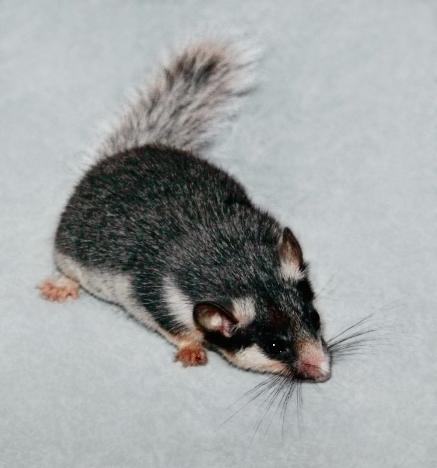 Spectacled Dormouse (Graphiurus ocularis)